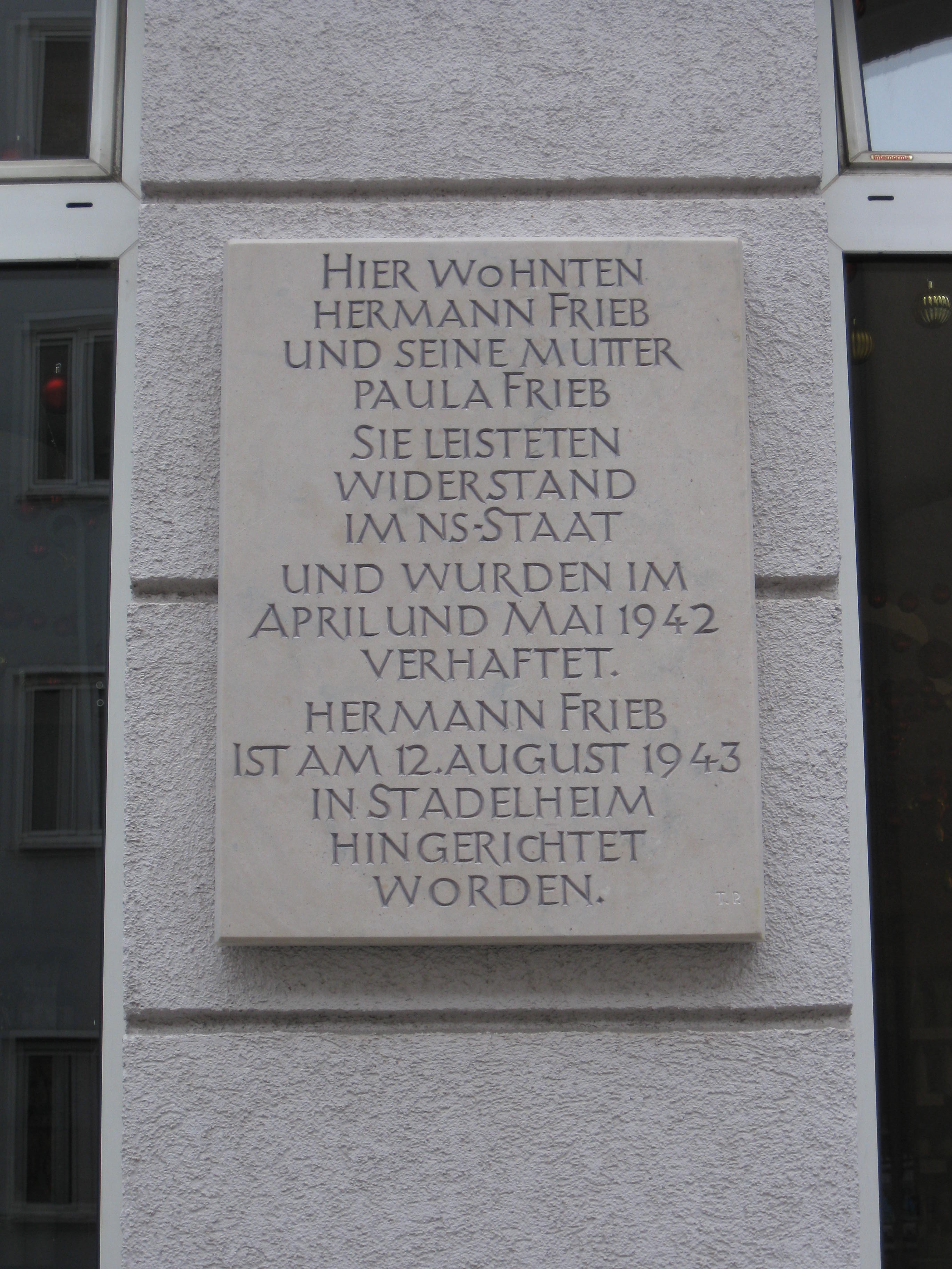 Plaque for Hermann Frieb and his mother, an opponent to National Socialism, who was murdered in 1943 in prison. The plaque is in Munich, Schellingstrasse.